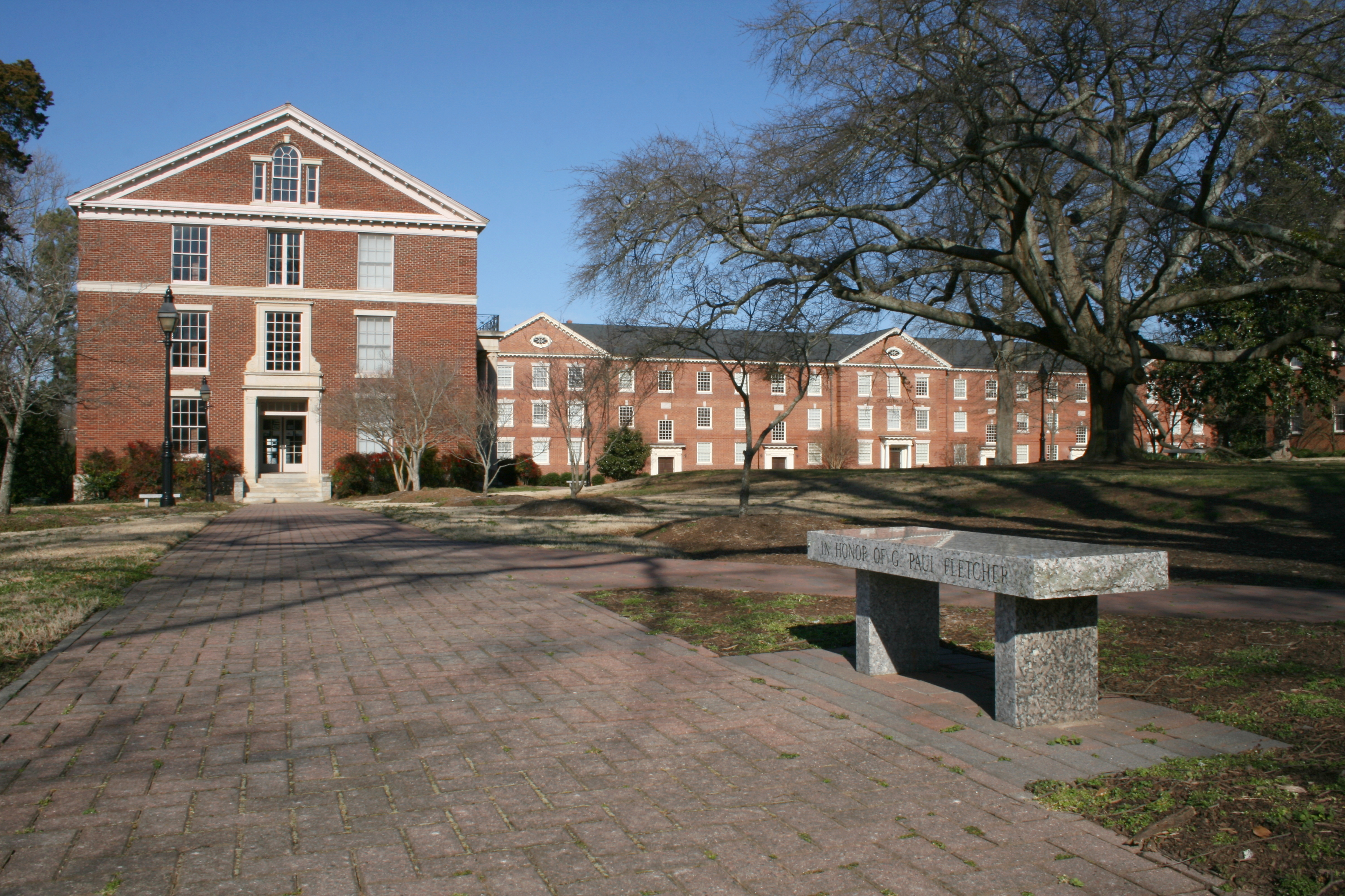 The campus of the Southeastern Baptist Theological Seminary in Wake Forest, North Carolina, showing Botswick Hall (left) and Goldston Hall (right) in the background and a bench dedicated to G. Paul Fletcher in the foreground.